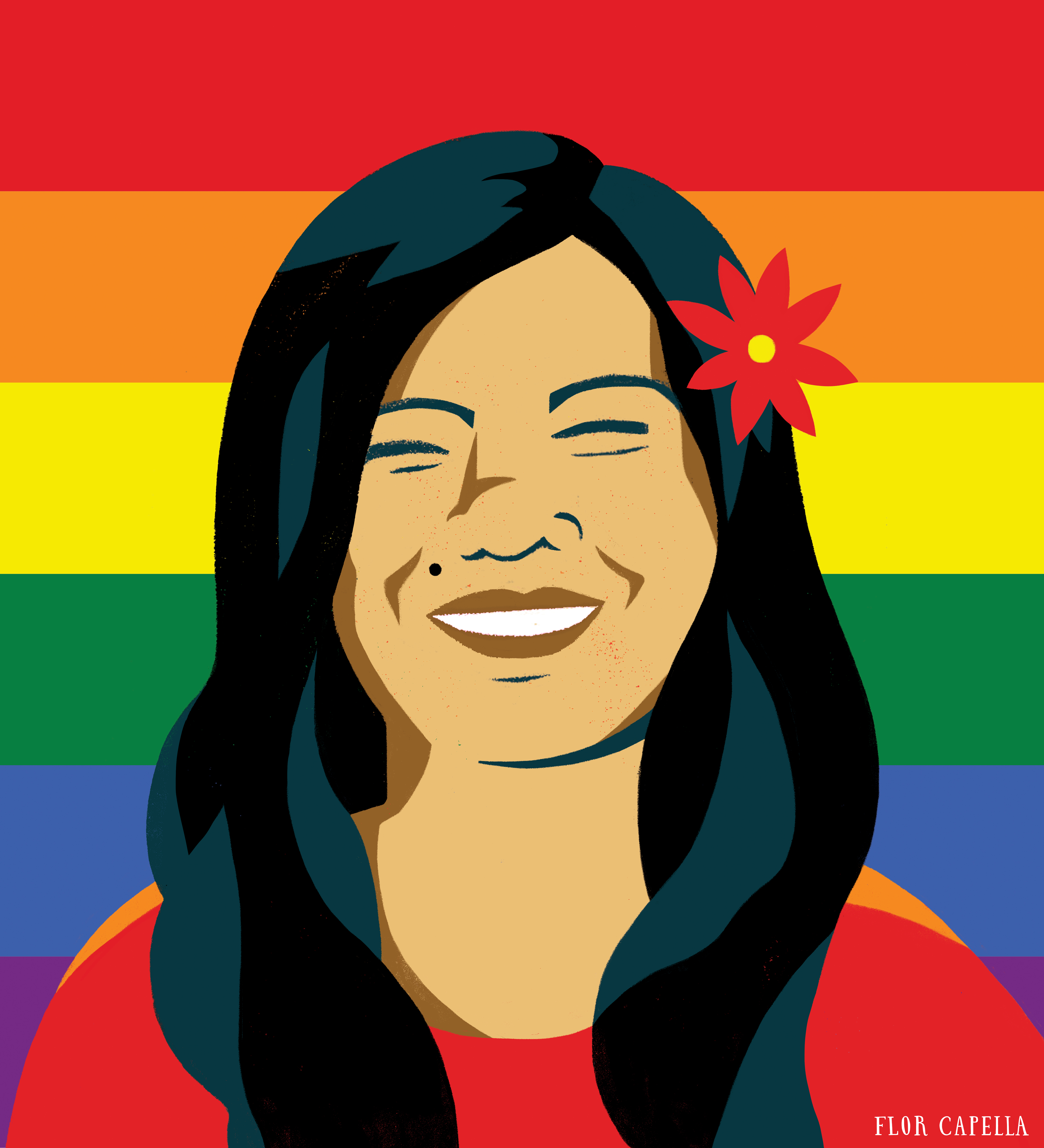 Diana Sacayán was an Argentinian LGBT activist. She worked for the legal and human rights of transgender people in Argentina.